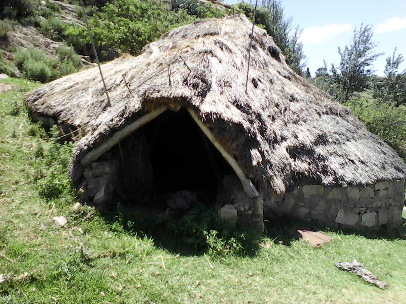 This small house is used by the boys who are in initiation school. It is not a hut though they look alike. Before they go up in the mountain to spend three months, the boys sleep in this house. This is an image of music and dance from Lesotho